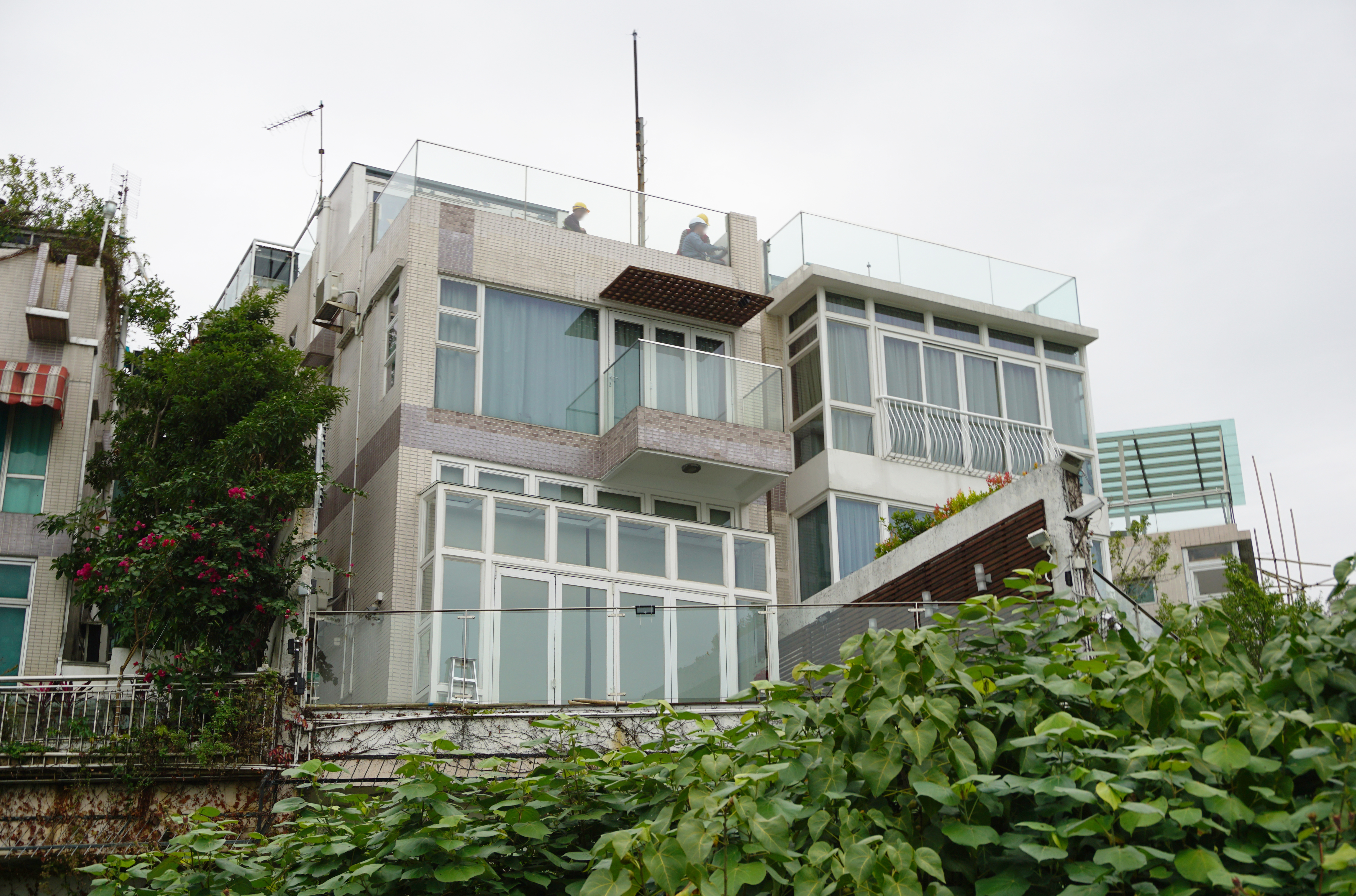 Villa De Mer in Siu Lam, Hong Kong.